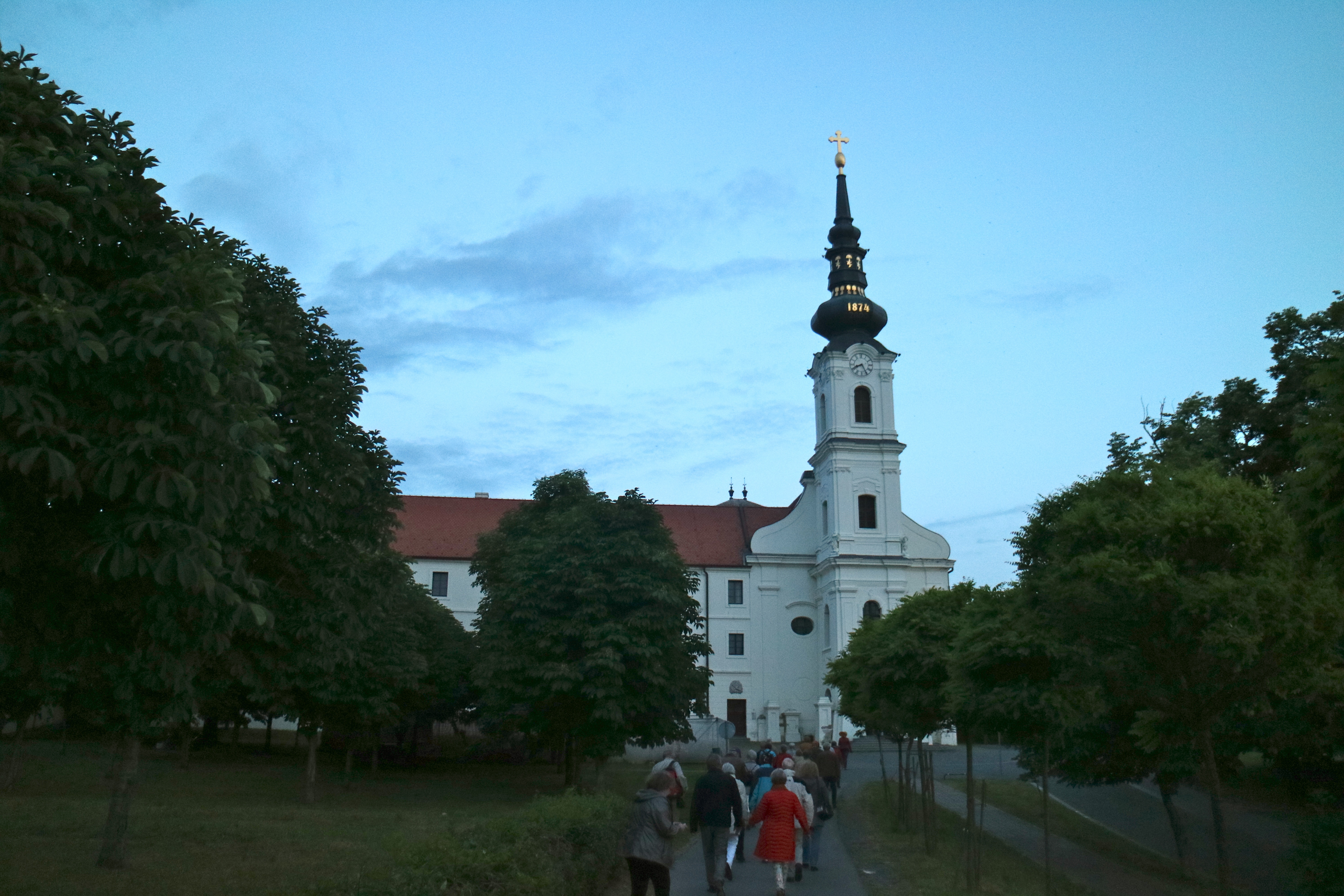 Church of St. Nicholas